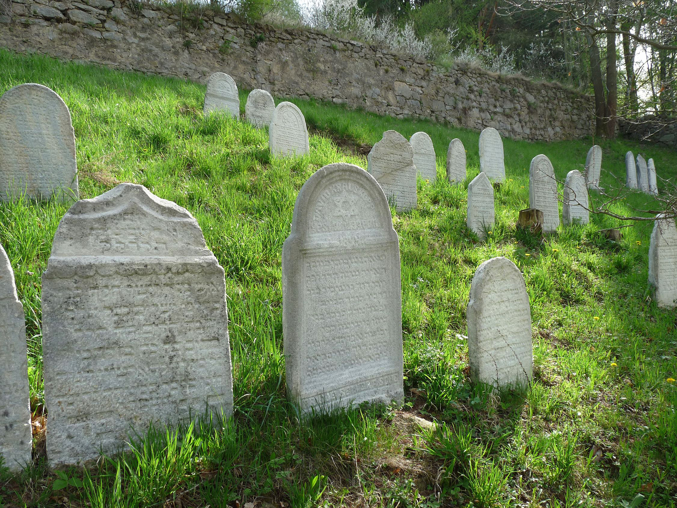 Jewish cemetery in Kolinec, Klatovy District, Czech Republic